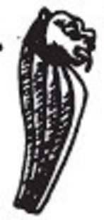 Divine symbol of Nergal. Munnabittu kudurru